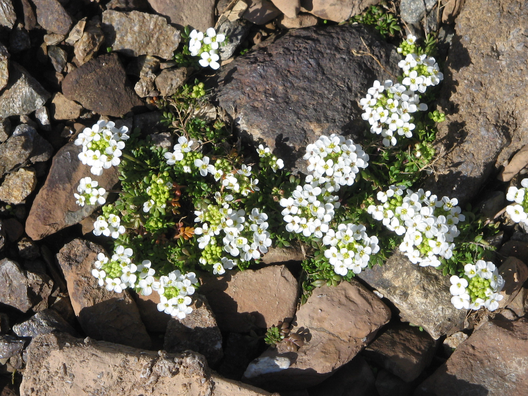 Hornungia alpina